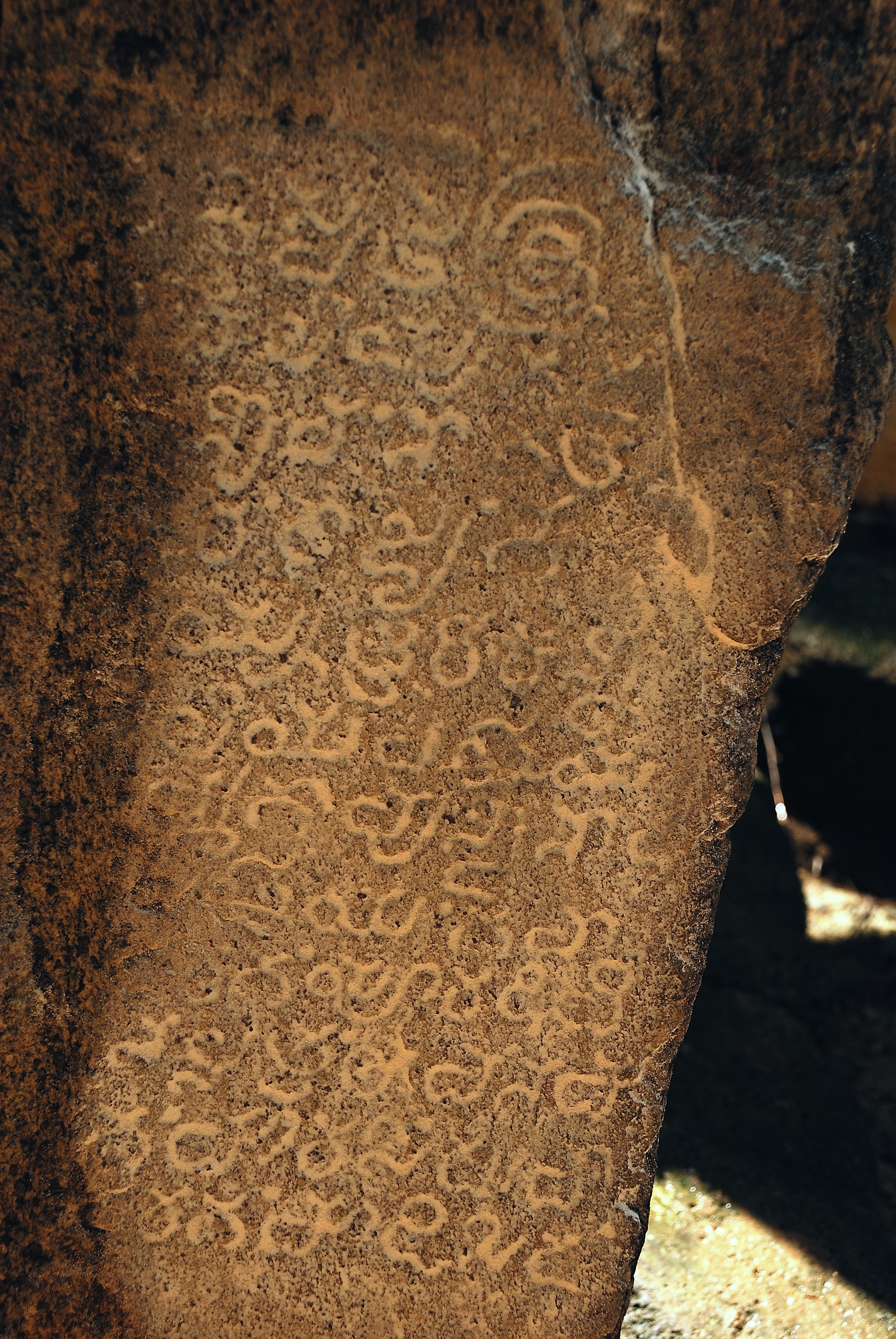 inscriptionstonesofbangalore